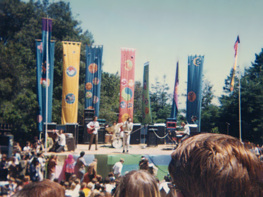 The Doors performing at Fantasy Fair and Magic Mountain Music Festival, Mount Tamalpais, Marin County, California, United States